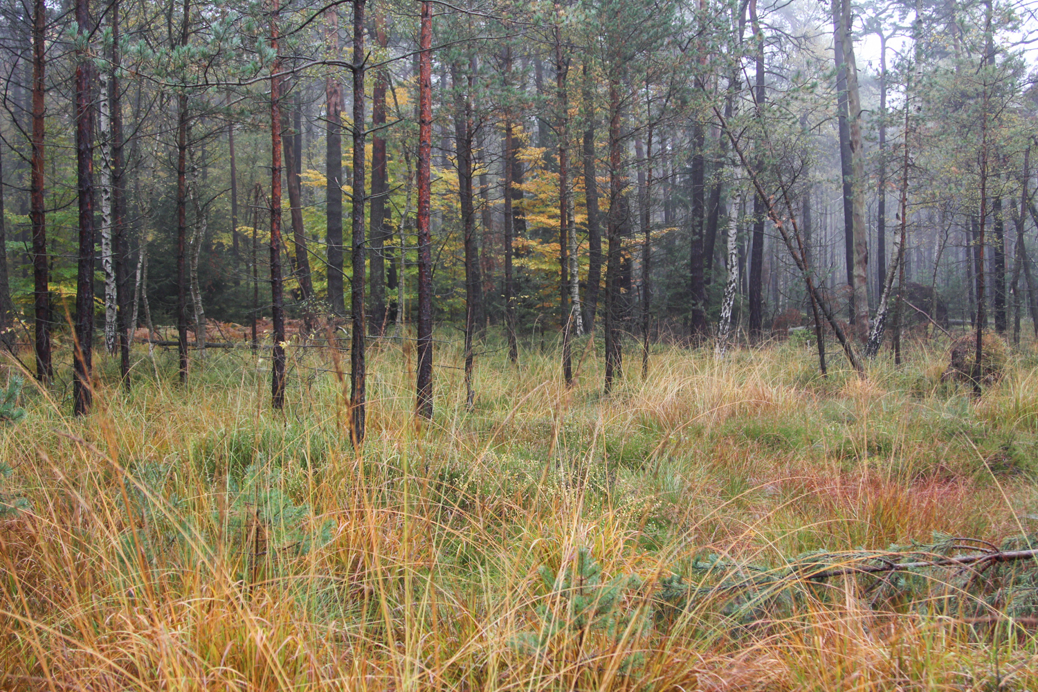 Natuel reserve Cabel in Bohemian Switzerland